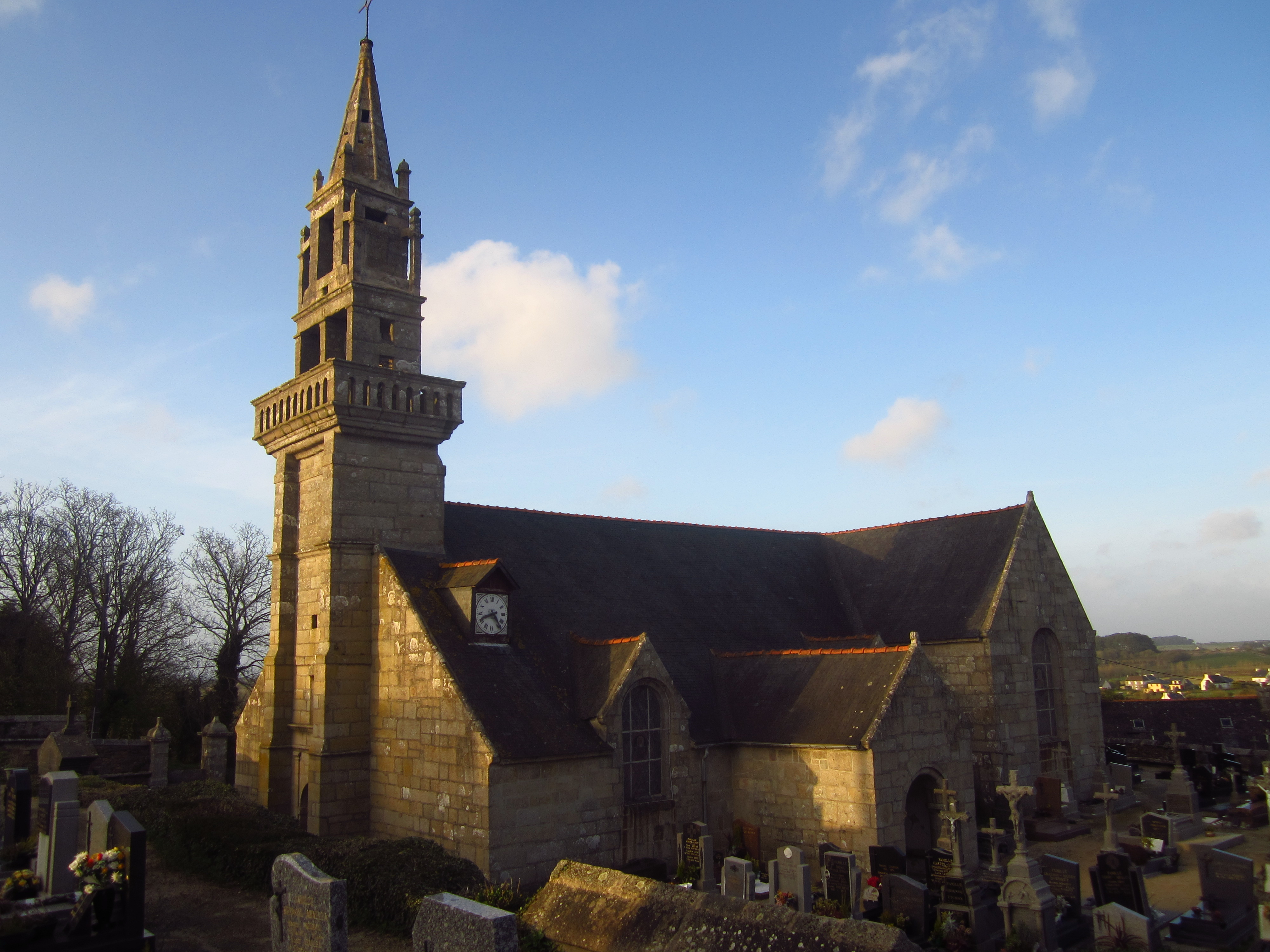 Church of Tréflez, Finistère